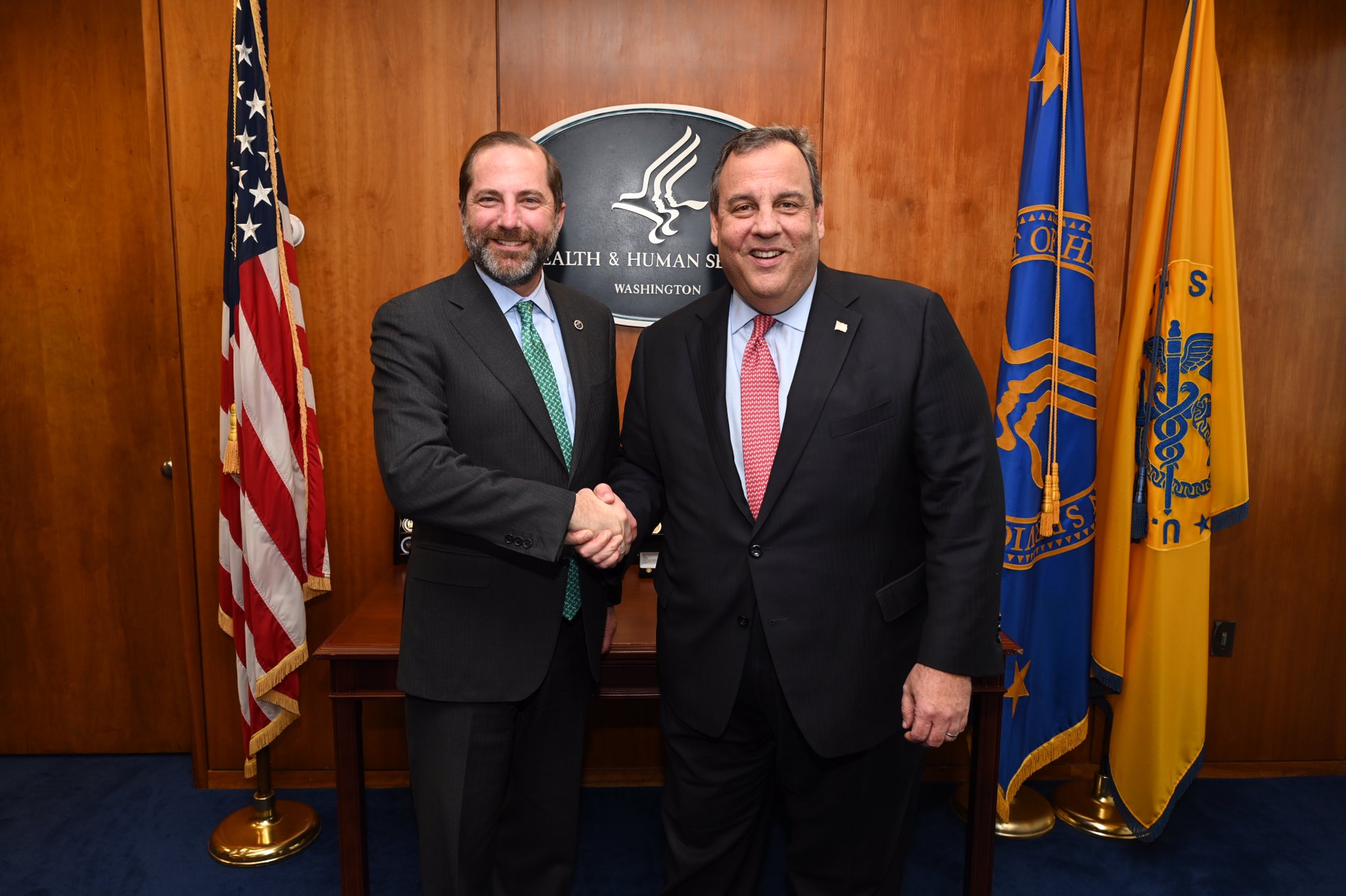 Great to meet with my good friend @GovChristie today to discuss the future of healthcare for Americans!